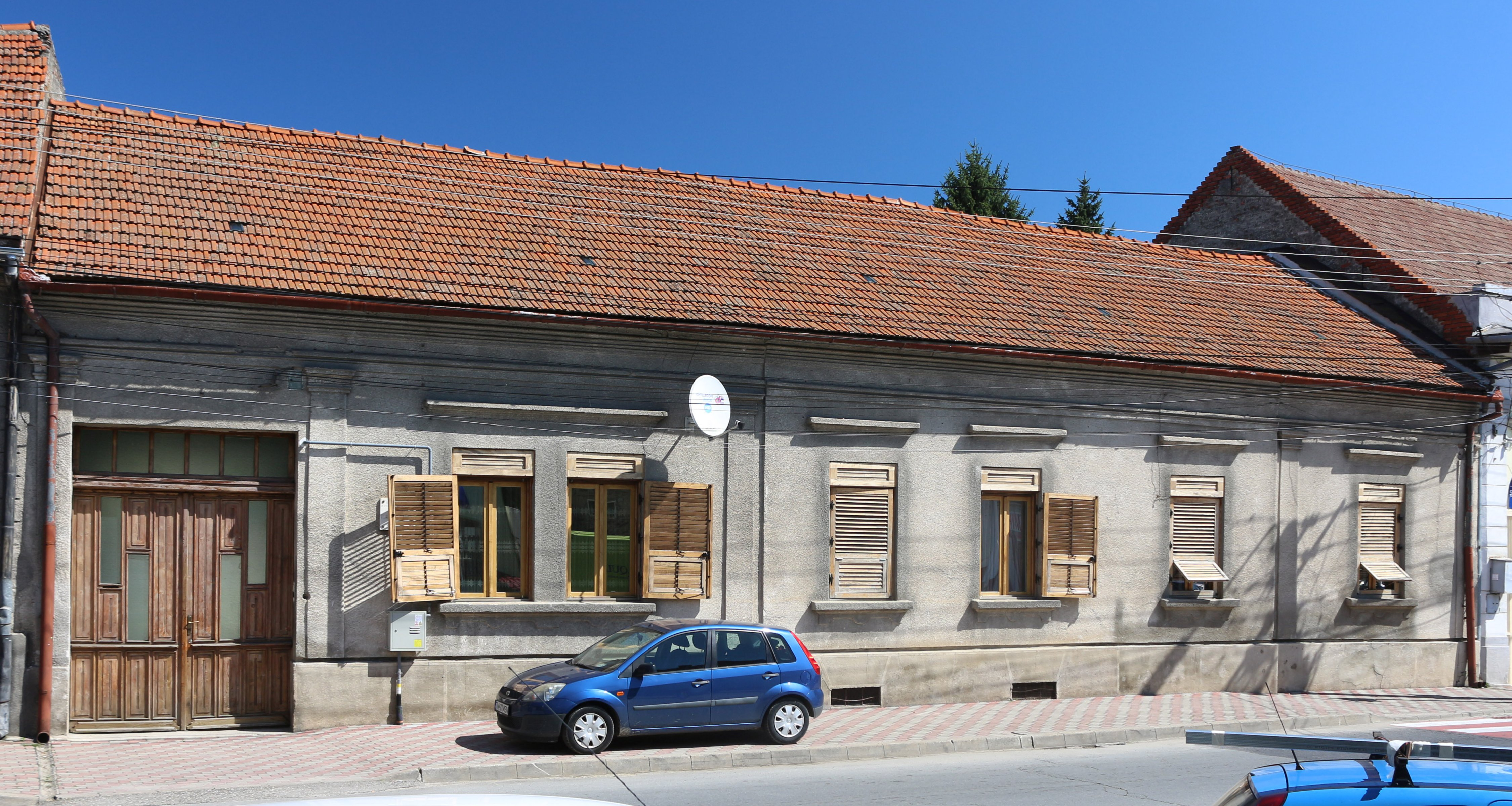 House of Victor Vlad Delamarina, Victor Vlad Delamarina St., no. 19, Lugoj, Romania, built 19th century.